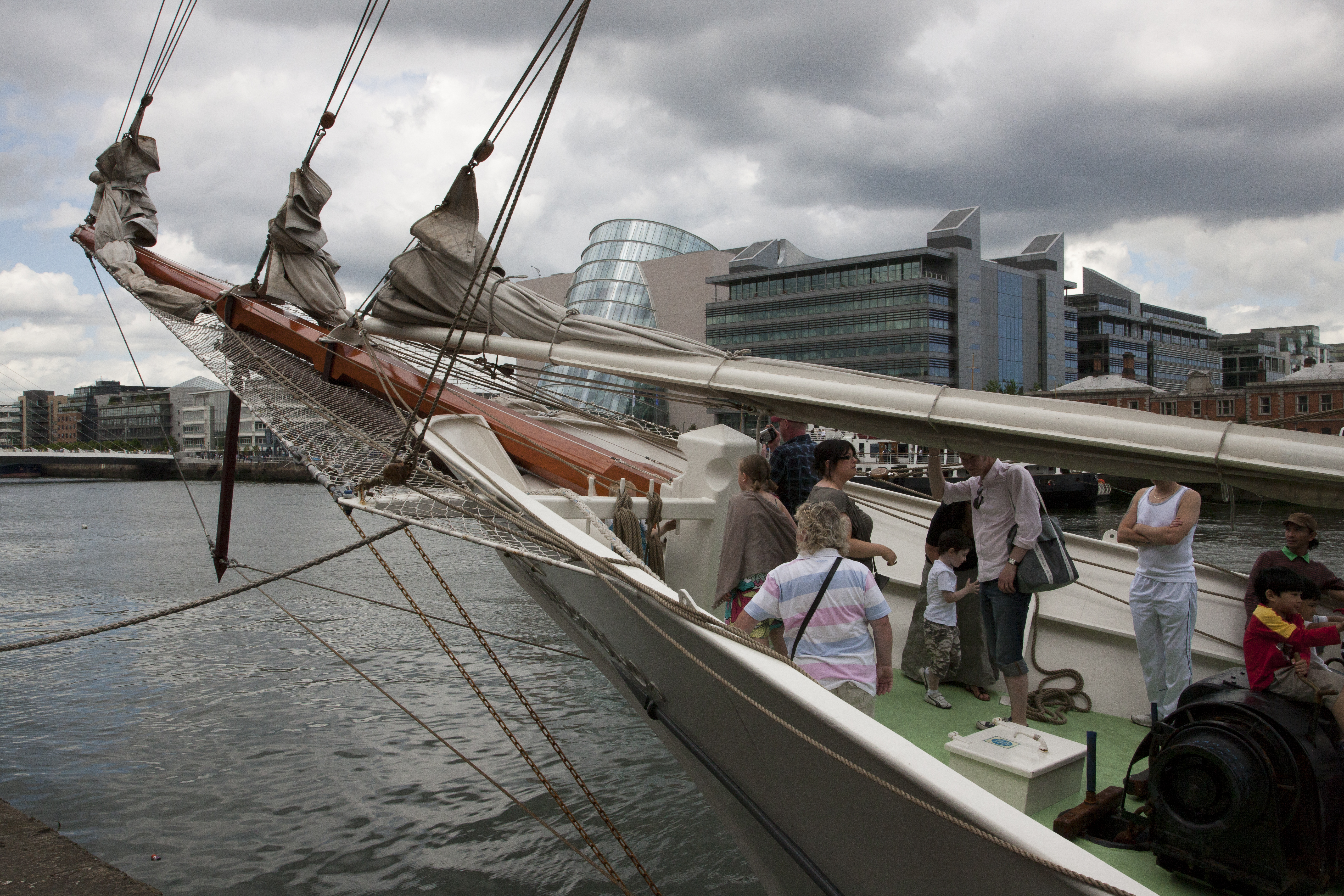 ARTEMIS Artemis was built in Norway in 1926 and operated as a whaling ship mainly in the northern and southern polar seas. From her home port in Oslo, she sailed to Spitsbergen and into the Bering Sea, fitted with a steam engine, two auxiliary masts and a variety of harpoon guns. During the 1950’s Artemis was then refitted to haul cargo and operated mainly as a tramp freighter between Asia and South America until she became unable to compete with newer and larger boats. She is now an elegant reminder of a time before diesel engines transformed boat design. Restored and refitted into a passenger ship, she boasts two salons holding over a hundred people in comfort and style. In 2001 she changed hands and was reconverted into an elegant sailing ship. The Artemis now plies the seas in the form of an imposing three-masted barque.